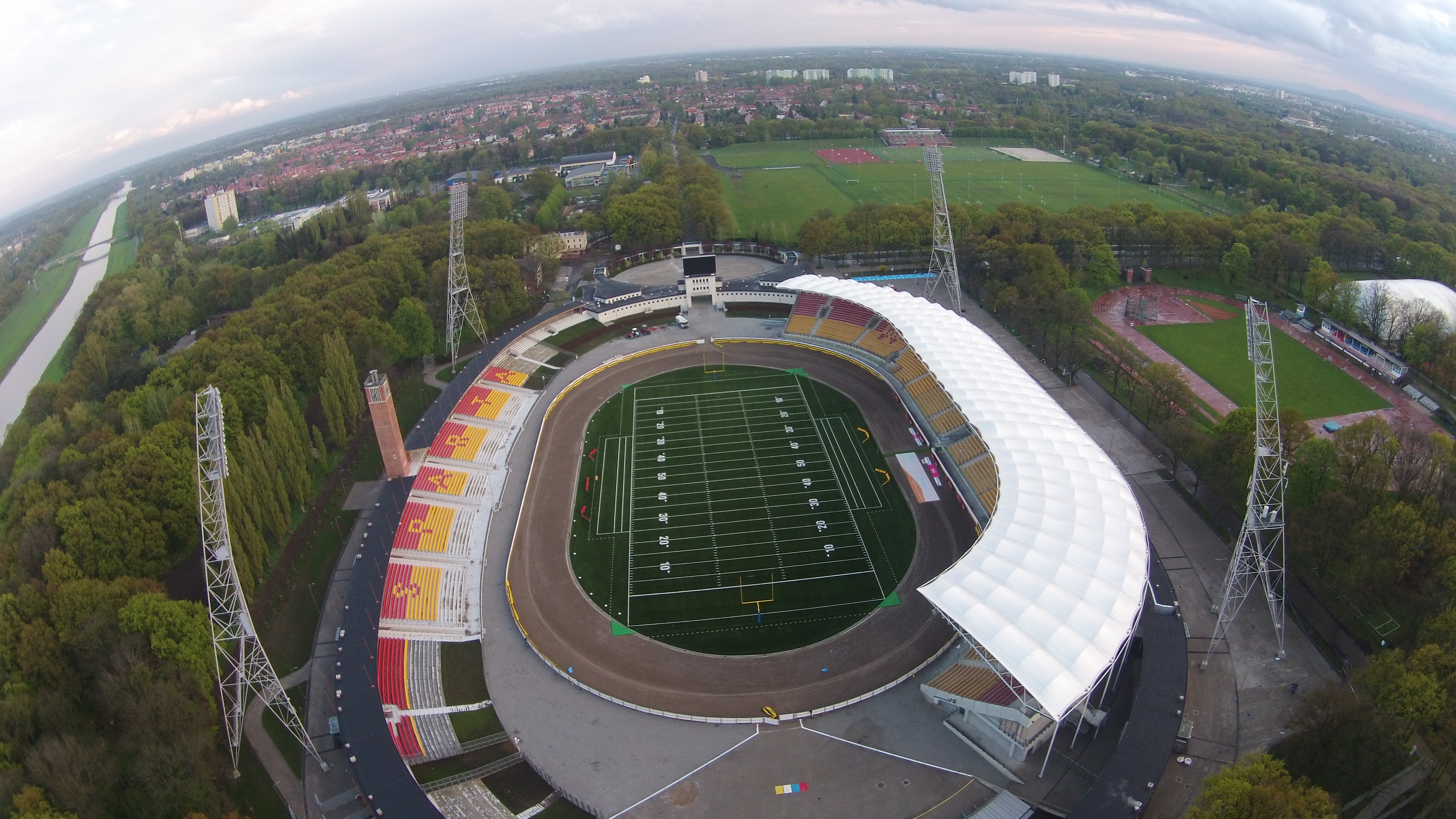 Olympic Stadium in Wrocław